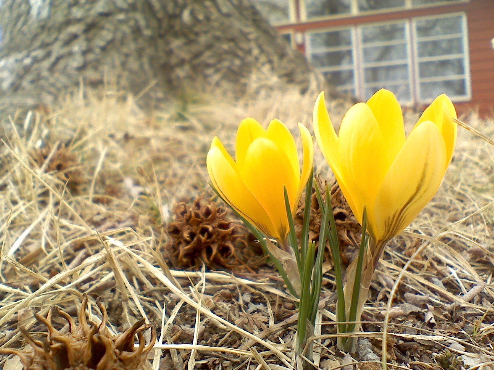 Yellow Snow Crocus flower in Carbondale, IL. USA 62901